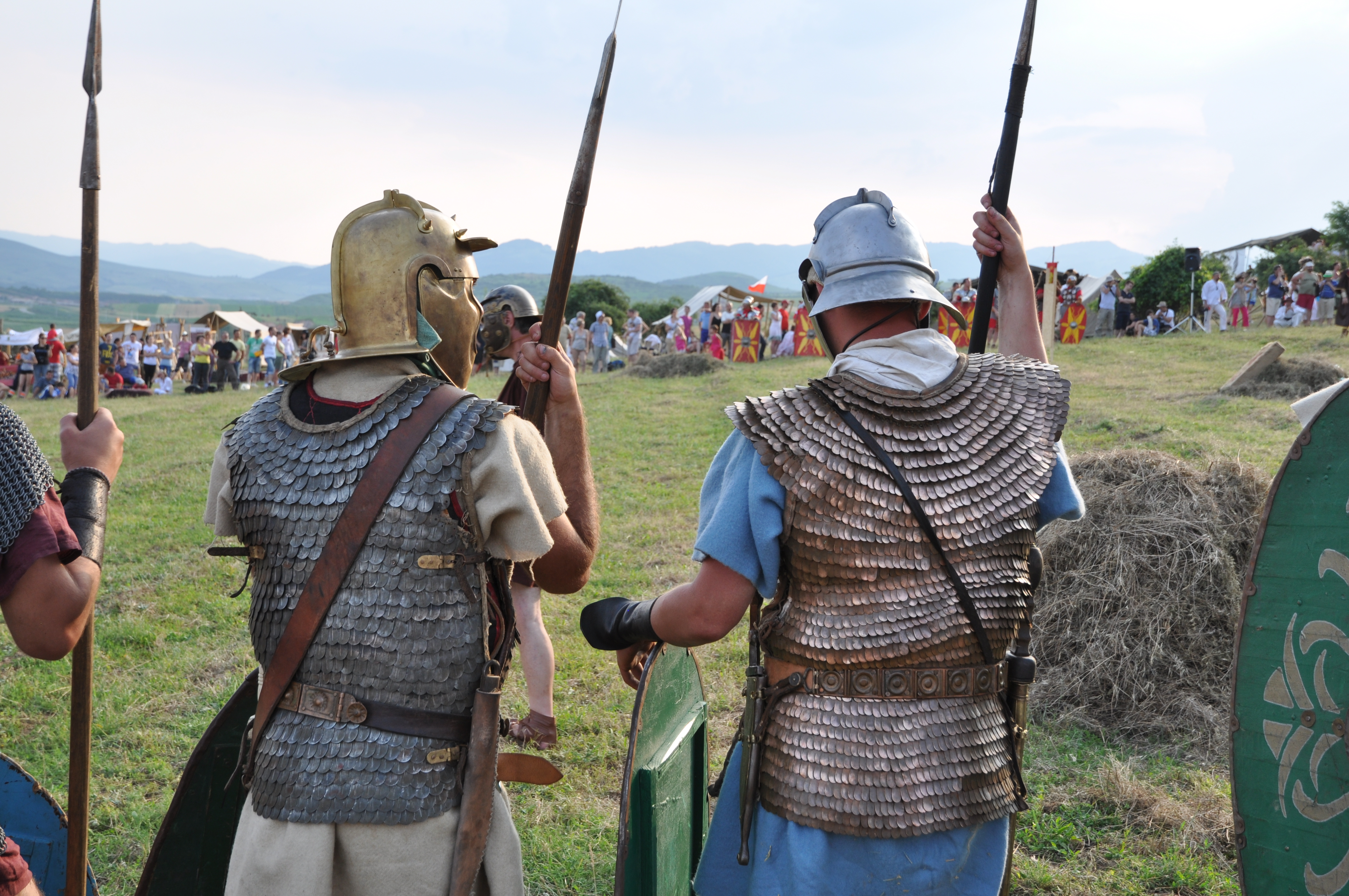 Cricău Festival 2013